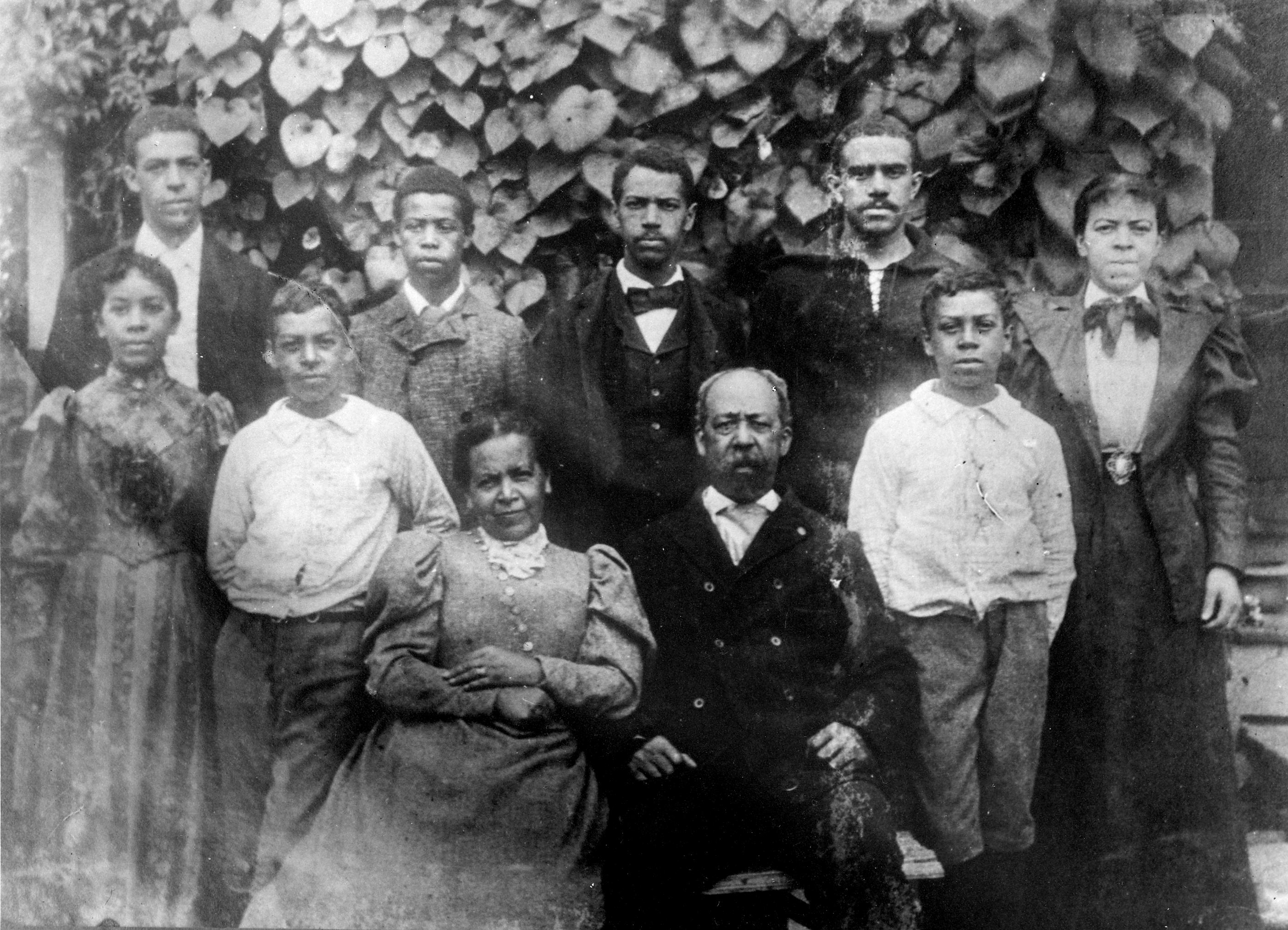 William B. Gould and Cornelia Williams Read Gould with their children in the late 1880's. Back row: Lawrence Wheeler Gould, Herbert Richardson Gould, William B. Gould Jr., Medora Williams Gould; Front row: Luetta Ball Gould, James Edward Gould, Cornelia Williams Read Gould, William B. Gould, Ernest Moore Gould.